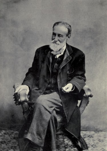 Picture of James Alfred Wanklyn